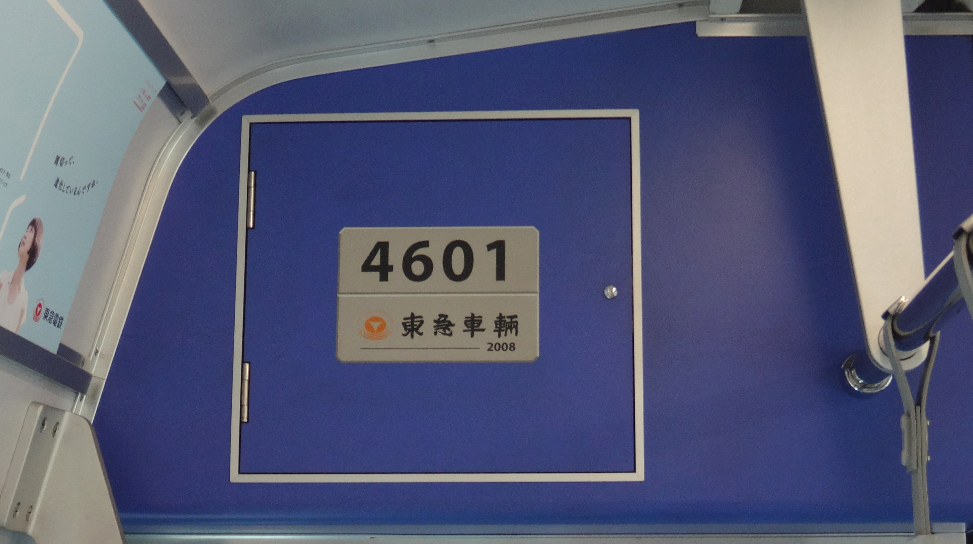 The Tokyu Car builder's plate of Tokyu 5050-4000 series EMU car 4601 (originally built as 5000 series car 5918)